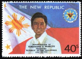 The New Republic Marcos Inauguration 30 Jun 1981